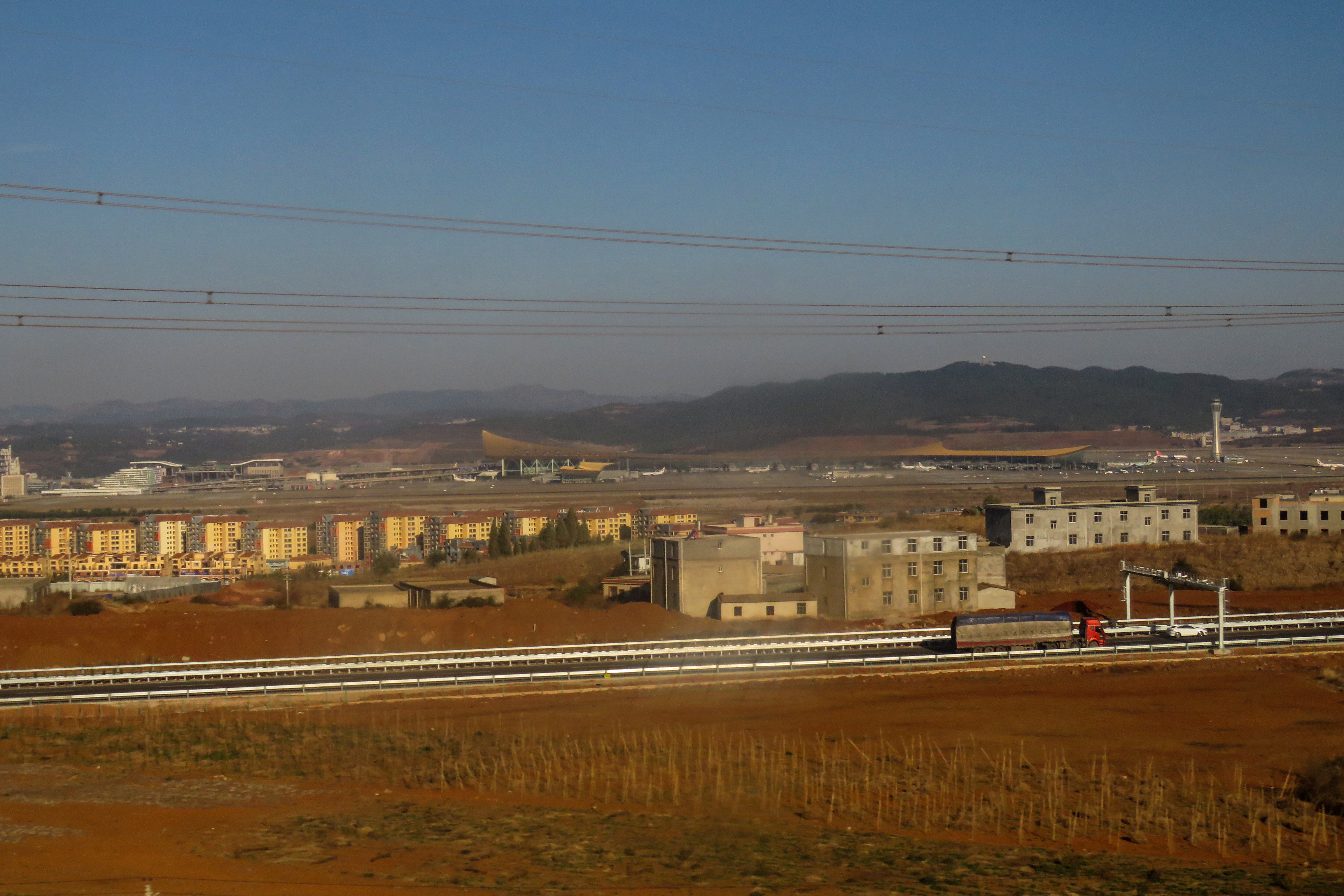 Taken from G2888.